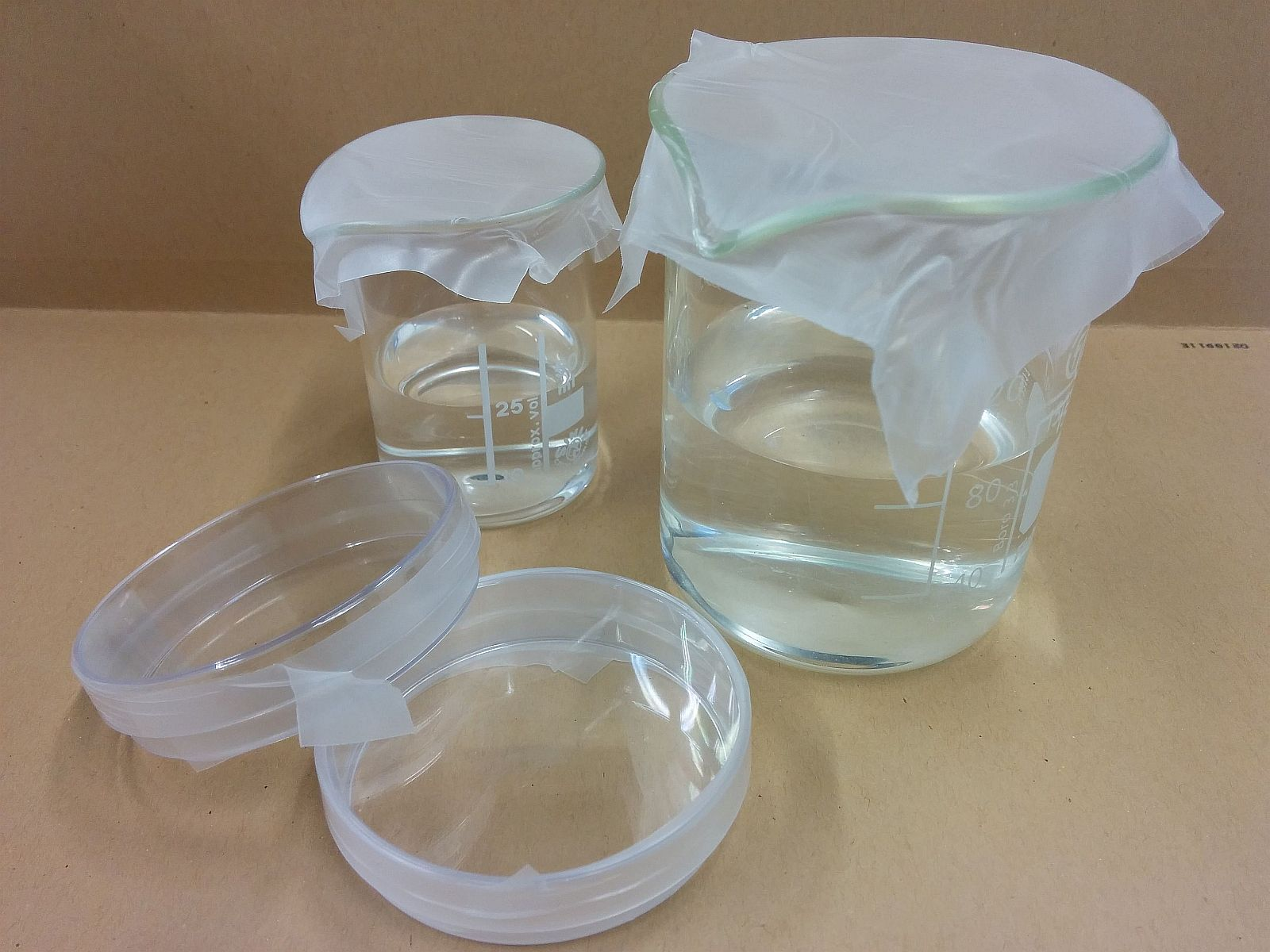 parafilm on petridish and other glassware